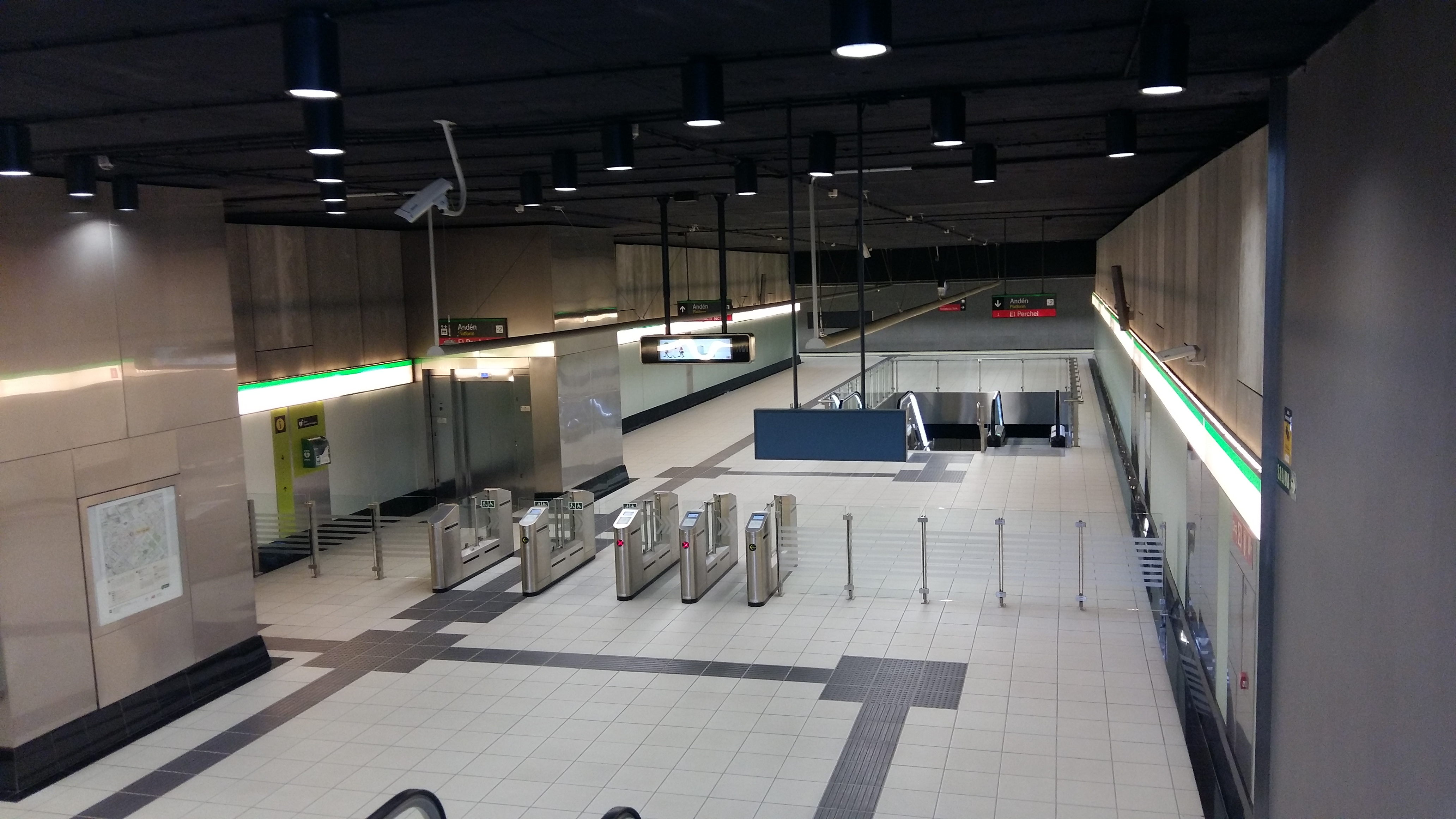 Estación de La Unión, Málaga.